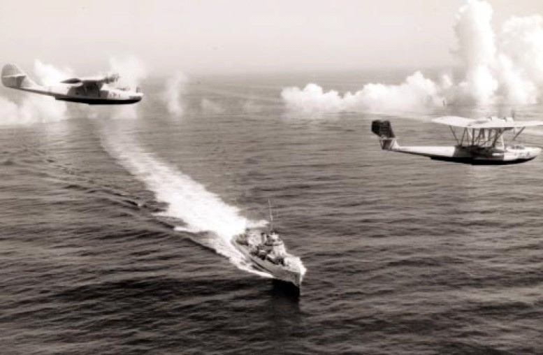 A U.S. Navy Consolidated PBY-1 of patrol squadron VP-11F (left) and a P2Y-3 of VP-7F (right) during an exhibition staged for Movietone News off San Diego, California (USA), 14 September 1936. The aircraft laid a smoke screen (visible in the background) and are flying over the Farragut-class destroyer USS Dale (DD-353).